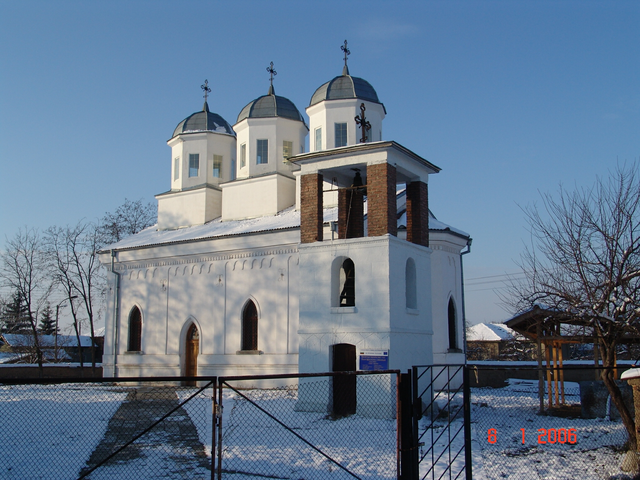 Church "Saint Archangel Michael" in village Lesnovo, Bulgaria